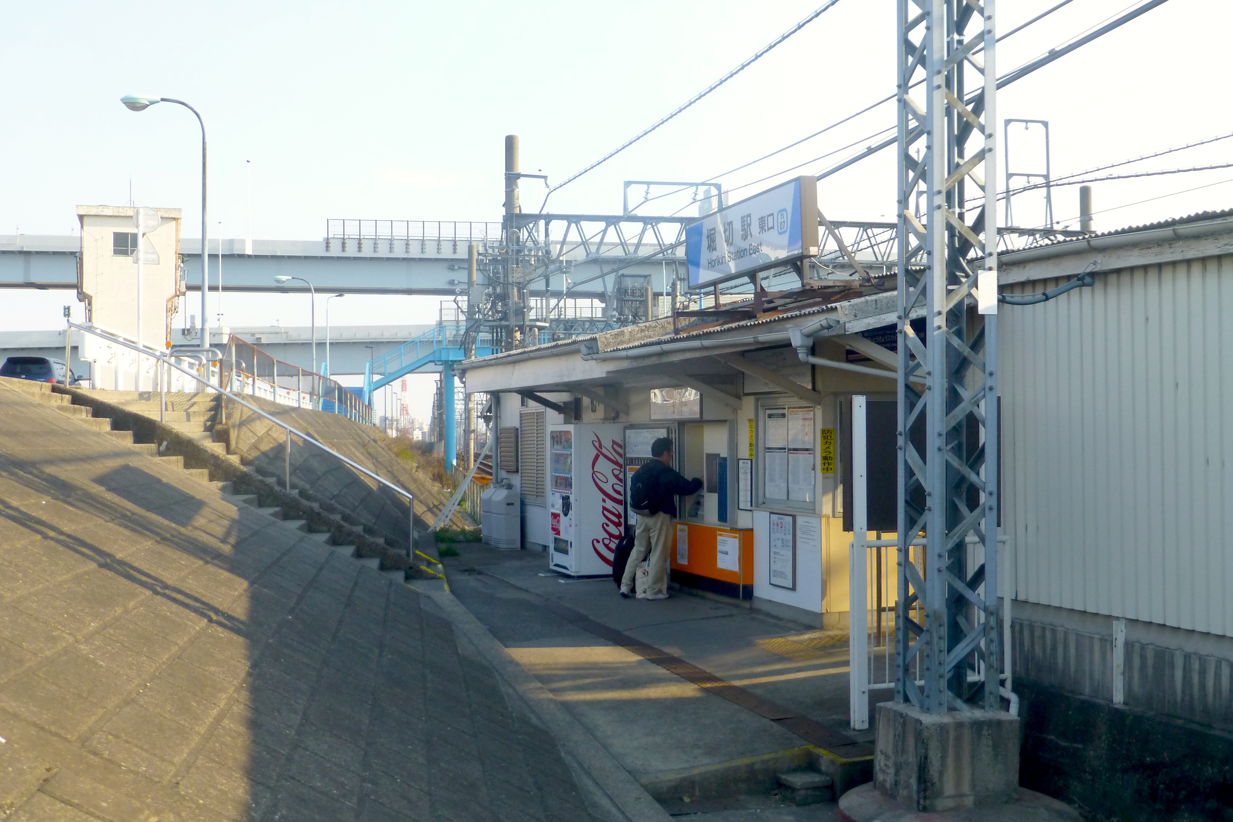 Horikiri Station (堀切駅 Horikiri-eki) is a railway station on the Tobu Skytree Line in Adachi, Tokyo, Japan, operated by the private railway operator Tobu Railway. This is the east exit (東口) of the station.